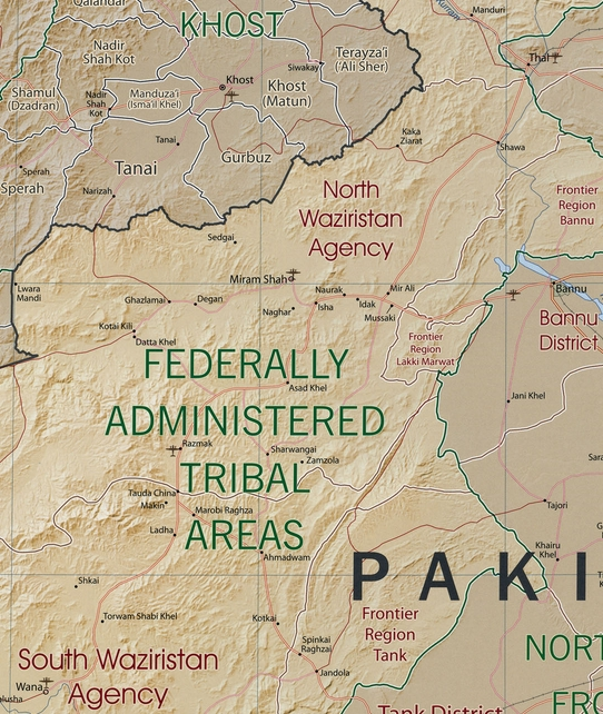 Khost, Afghanistan and North and South Waziristans, FATA, Pakistan